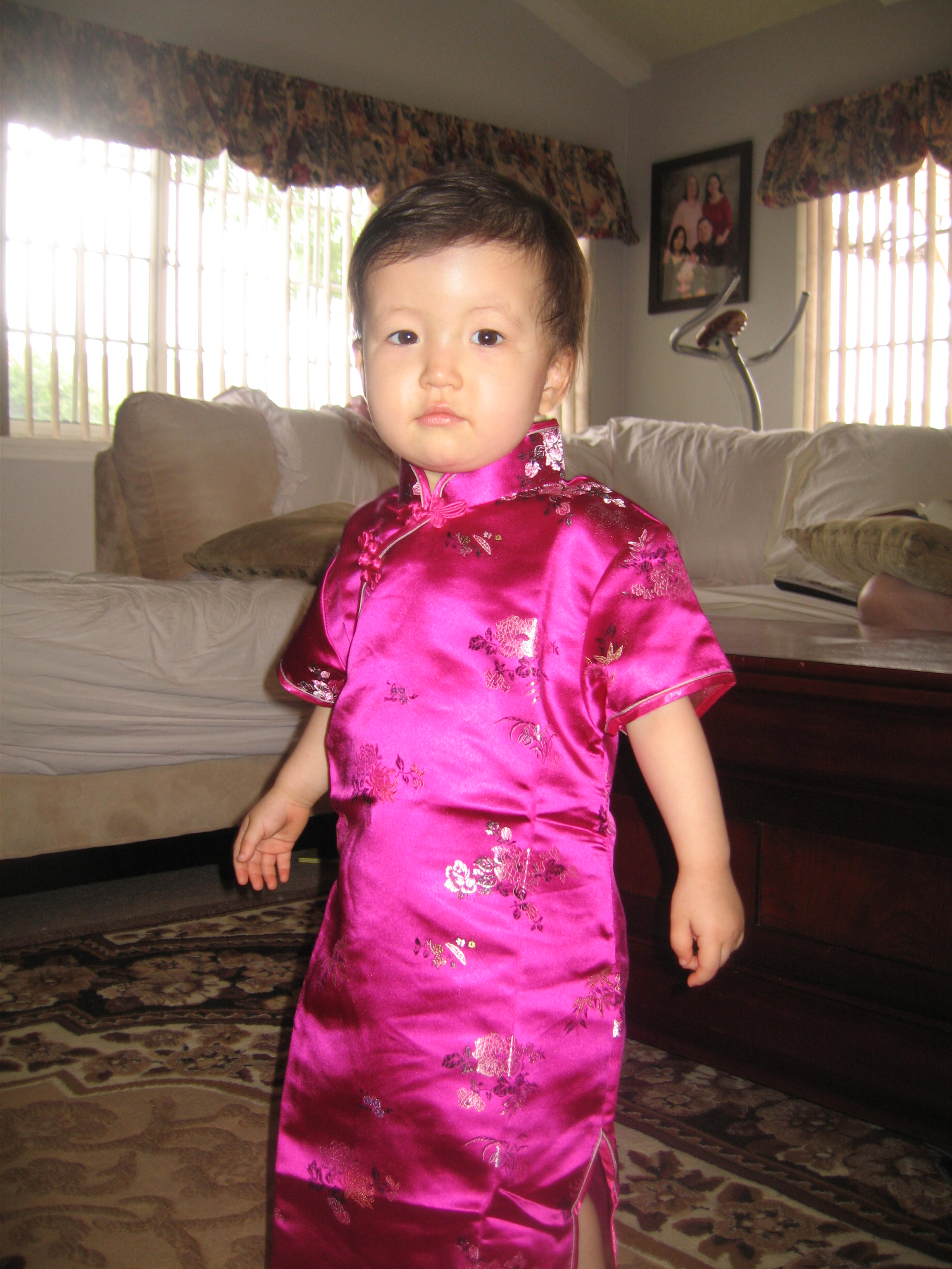 Mongolian-American child, age one year eleven months, wearing traditional Mongolian deel